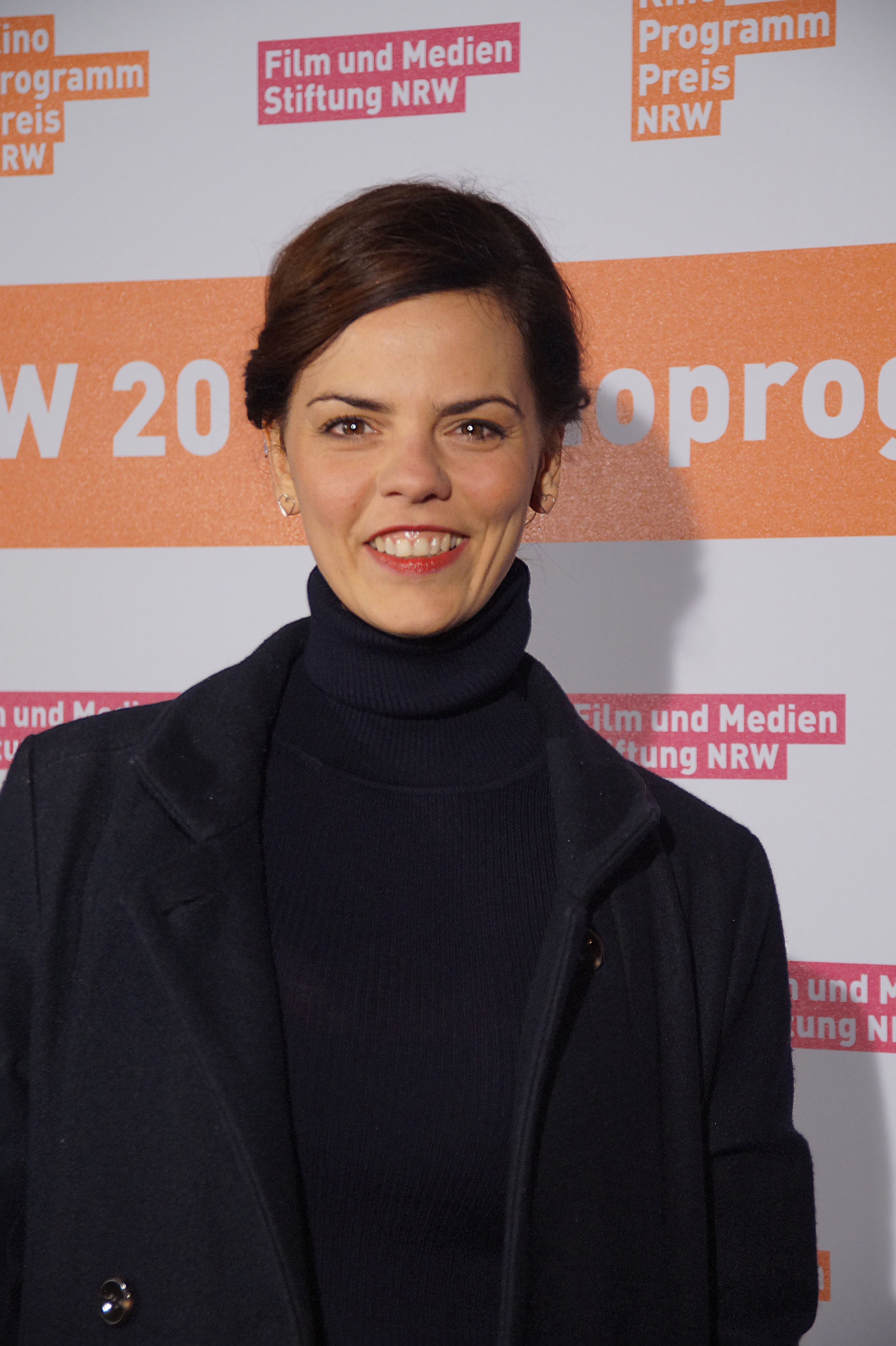 Camilla Renschke beim NRW Kinoprogrammpreis, November 2016, Köln.